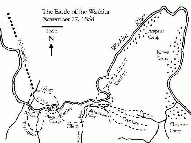 Being a map of the Battle of Washita, originating from the US National Park Service, this map is in the public domain. Retrieved from at website of Washita Battlefield National Historic Site, National Park Service.jkjh